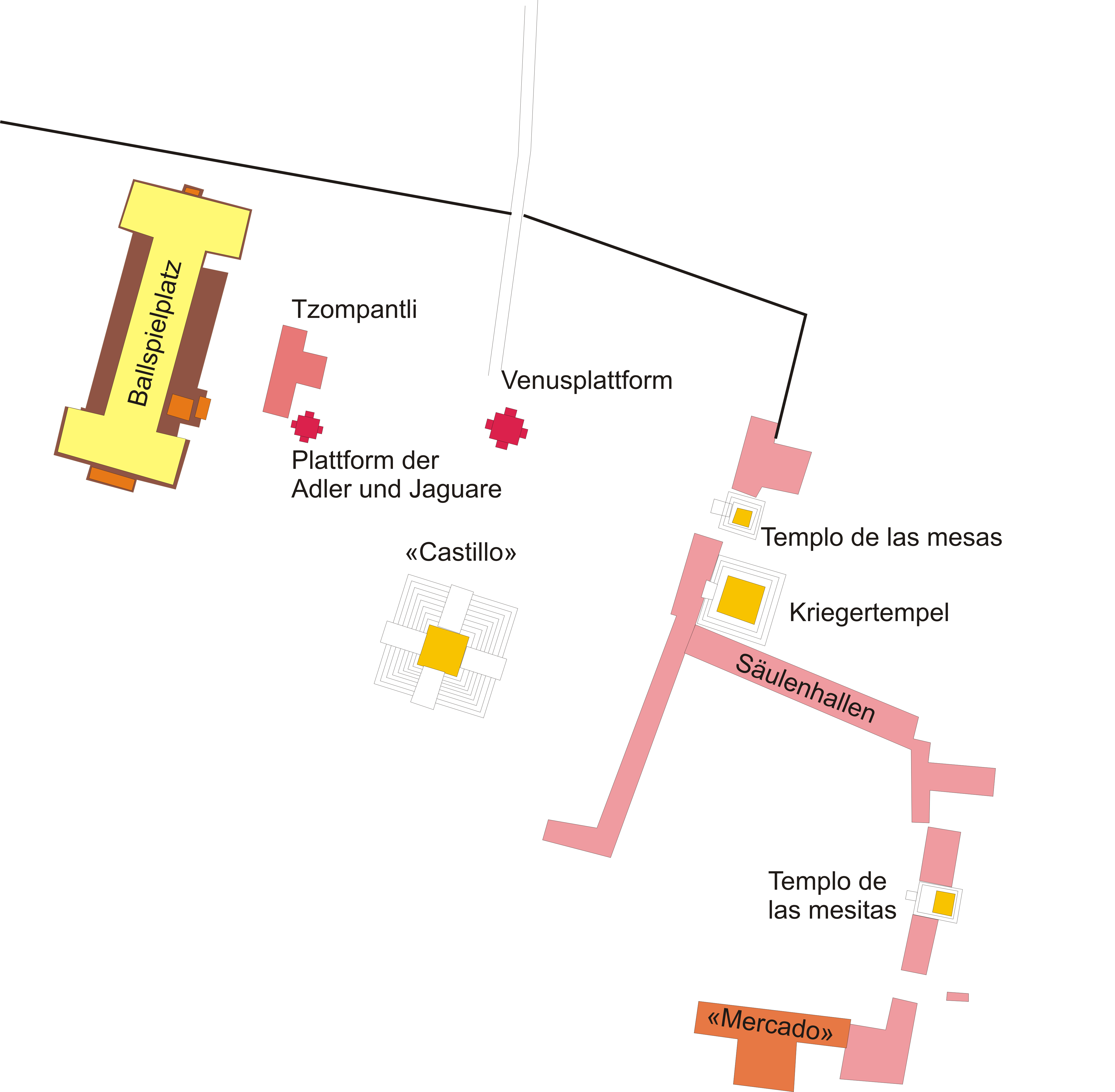 Chichen Itza, northern center, schematic plan.